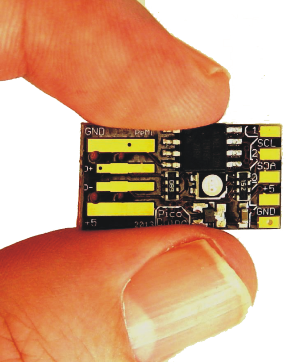 I believe the PicoDuino is the smallest complete development platform in the world.